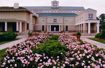 A daytime photo of the Columbus Museum in Columbus, Geogia.